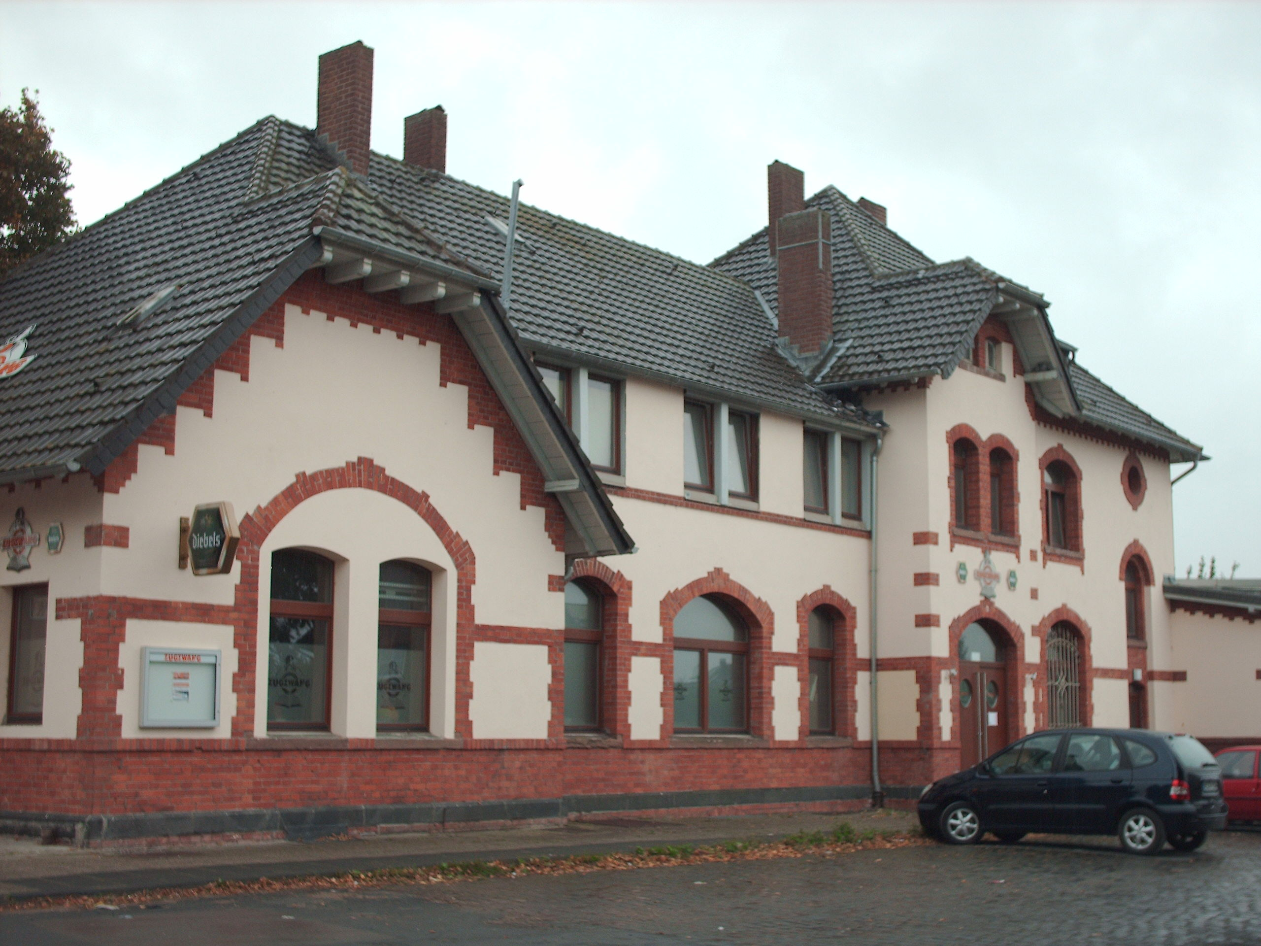 Rheinberg station, Rheinberg, Germany check usage